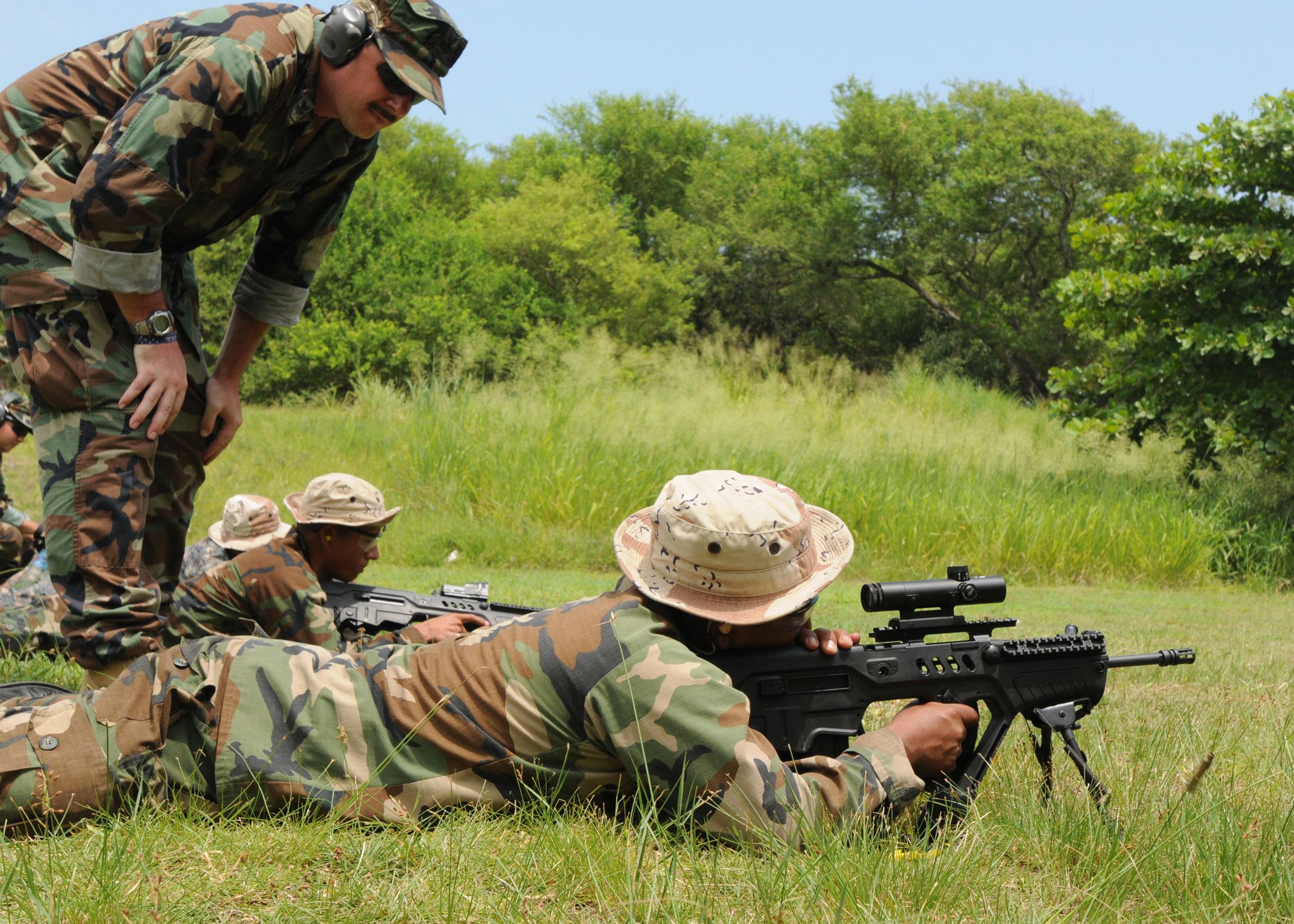 SAN JOSE, Guatemala (Sept. 11, 2009) Gunner's Mate 1st Class Sean Sammons assigned with Expeditionary Training Command (ETC) observes a member of the Guatemalan Navy Special Forces during a live fire exercise. ETC sent a five member Mobile Training Team to Guatemala with the mission to assist the Guatemalan Navy in the training of their elite combat units in advanced marksmanship and other expeditionary security methods. (U.S. Navy photo by Mass Communication Specialist 2nd Class Paul D. Williams/ Released)